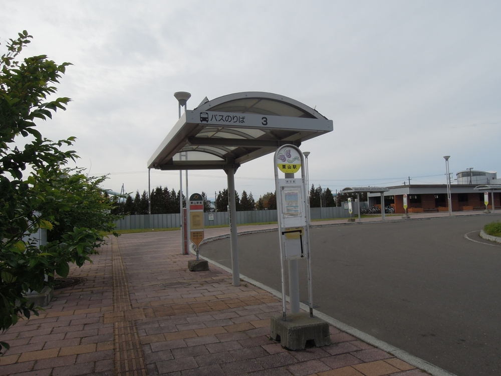 Kuriyama Station bus stop #3 (back: Naganuma town bus, front: Kuriyama town bus)